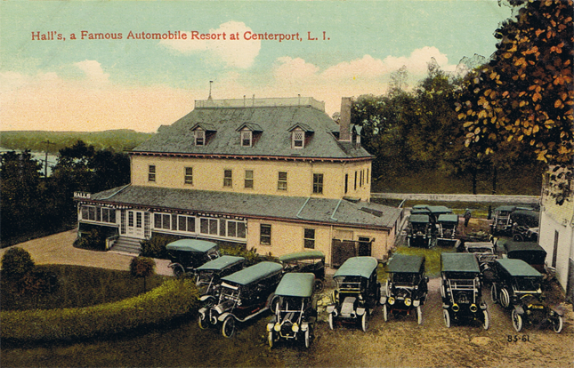 Glossy color postcard of "Hall's, a Famous Automobile Resort at Centerport", Long Island, New York. Back is divided. Published by The Valentine-Souvenir Co., New York. Printed in U.S.A.